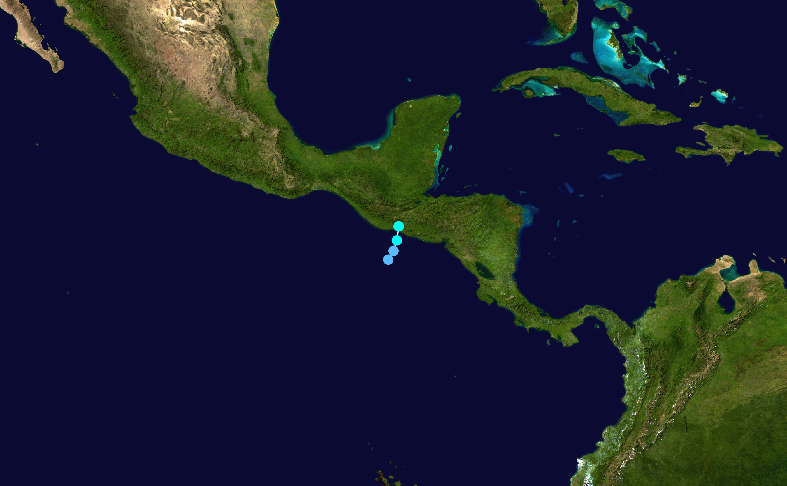 Track map of Tropical Storm Amanda of the 2020 Pacific hurricane season. The points show the location of the storm at 6-hour intervals. The colour represents the storm's maximum sustained wind speeds as classified in the Saffir–Simpson scale (see below), and the shape of the data points represent the nature of the storm, according to the legend below. Saffir–Simpson scale Tropical depression≤38 mph≤62 km/h Category 3111–129 mph178–208 km/h Tropical storm39–73 mph63–118 km/h Category 4130–156 mph209–251 km/h Category 174–95 mph119–153 km/h Category 5≥157 mph≥252 km/h Category 296–110 mph154–177 km/h Unknown Storm type Tropical cyclone Subtropical cyclone Extratropical cyclone / Remnant low / Tropical disturbance / Monsoon depression